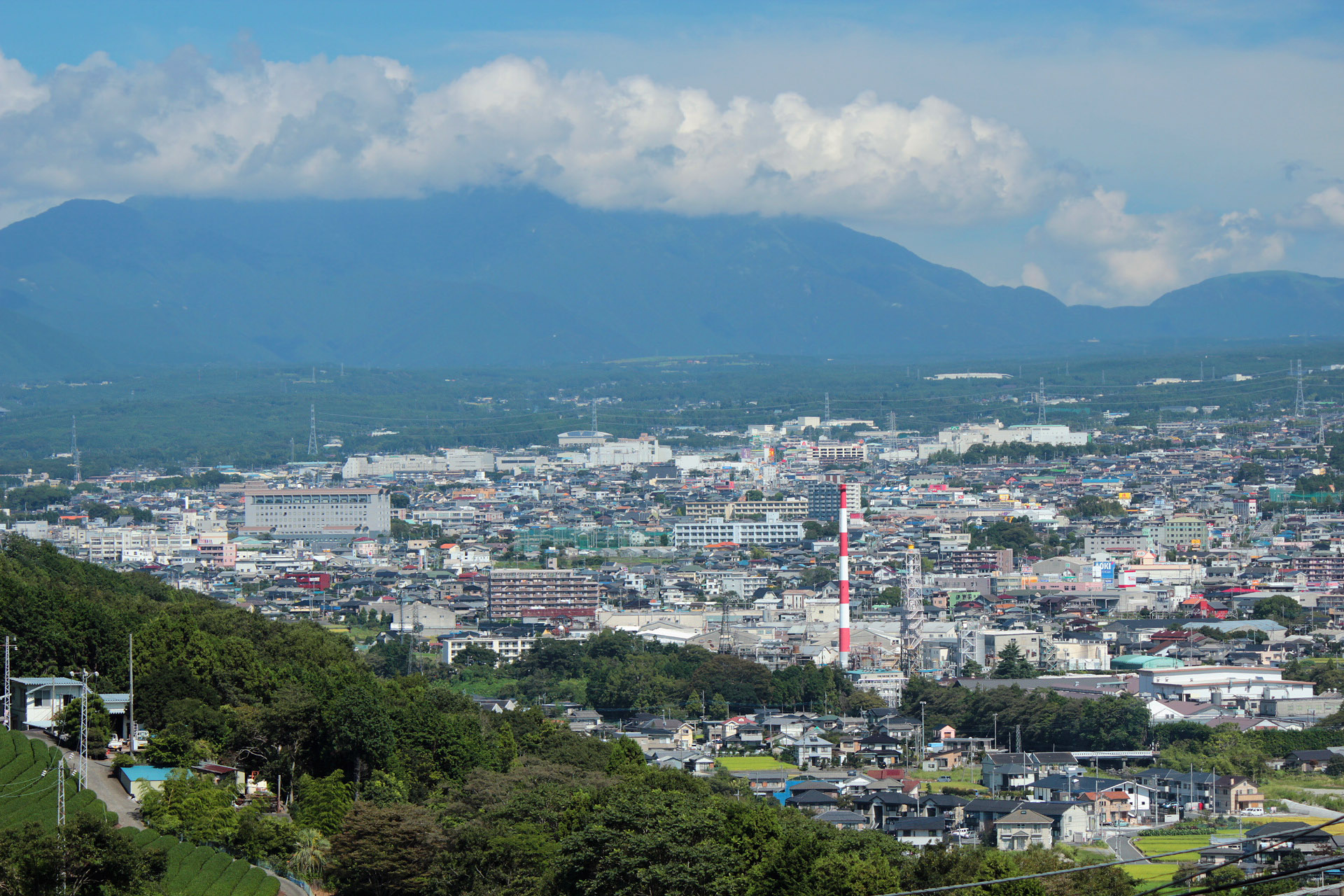 Downtown of Fujinomiya as seen from the souteast in Shizuoka Prefecture, Japan.